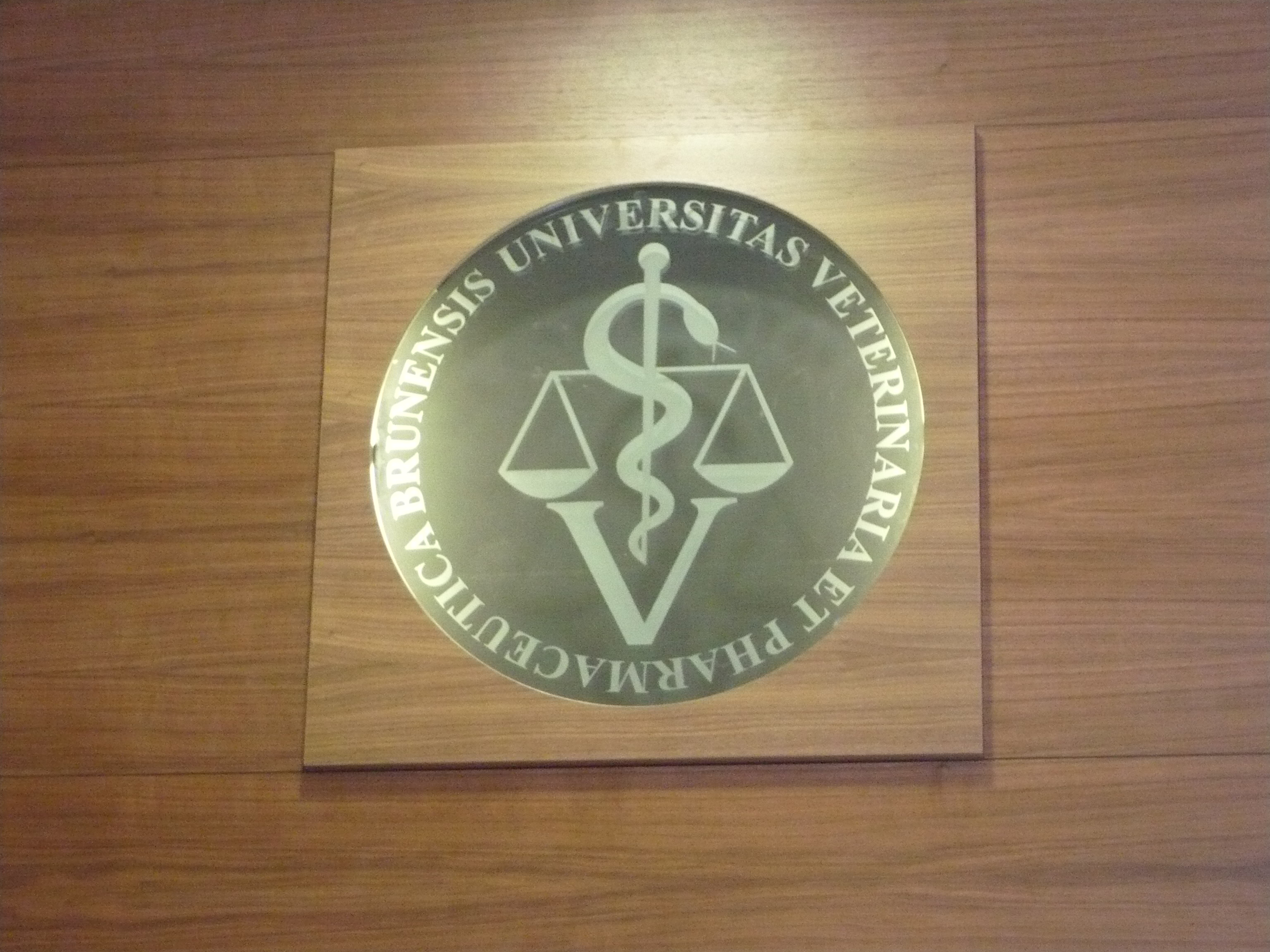 symbol of Veterinary and pharmaceutical university Brno